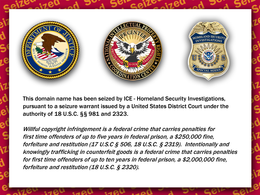 This is the image that the US DHS ICE (Immigration and Customs Enforcement) put on the homepage of the websites it seized in November 2010.